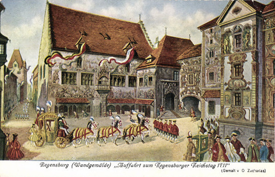 1711 painting of O. Zacharias showing the ceremonial arrival of a coach at the Reichstag (Imperial Diet) in Regensburg, a Free Imperial City. Actualy, the Reichstag didn't have it's own distinct building: the delegates met in the Reichssaal (Imperial Hall) inside the still-standing Rathaus (City Hall) of Regensburg, which is the building shown in the painting. Pre-WW II postcard.